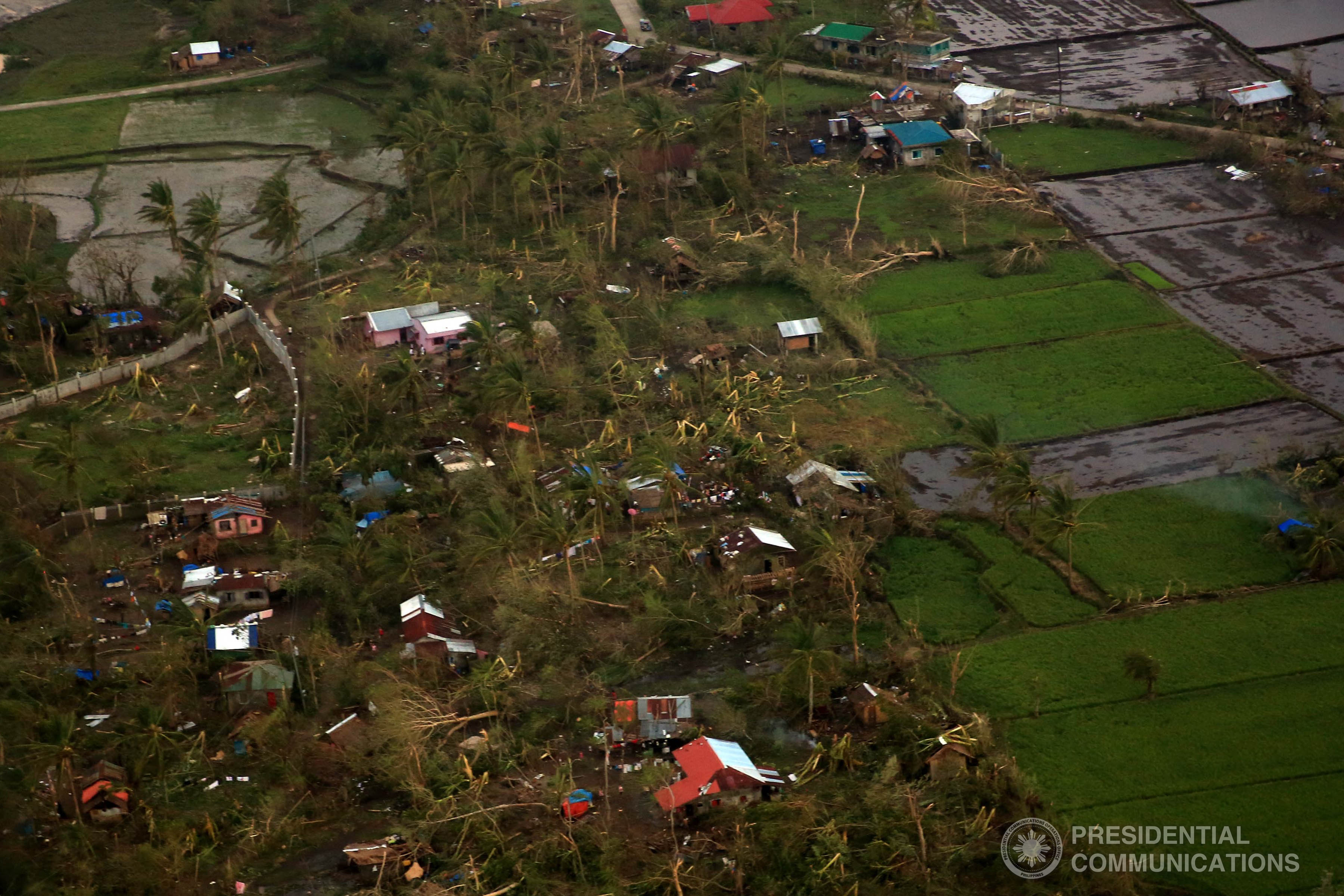 Aerial photo shows the damage of Typhoon Nina to the communities of Camarines Sur. President Rodrigo Roa Duterte leads the relief distribution to the typhoon victims in Pili, Camarines Sur on December 27, 2016. ALFRED FRIAS/Presidential Photo